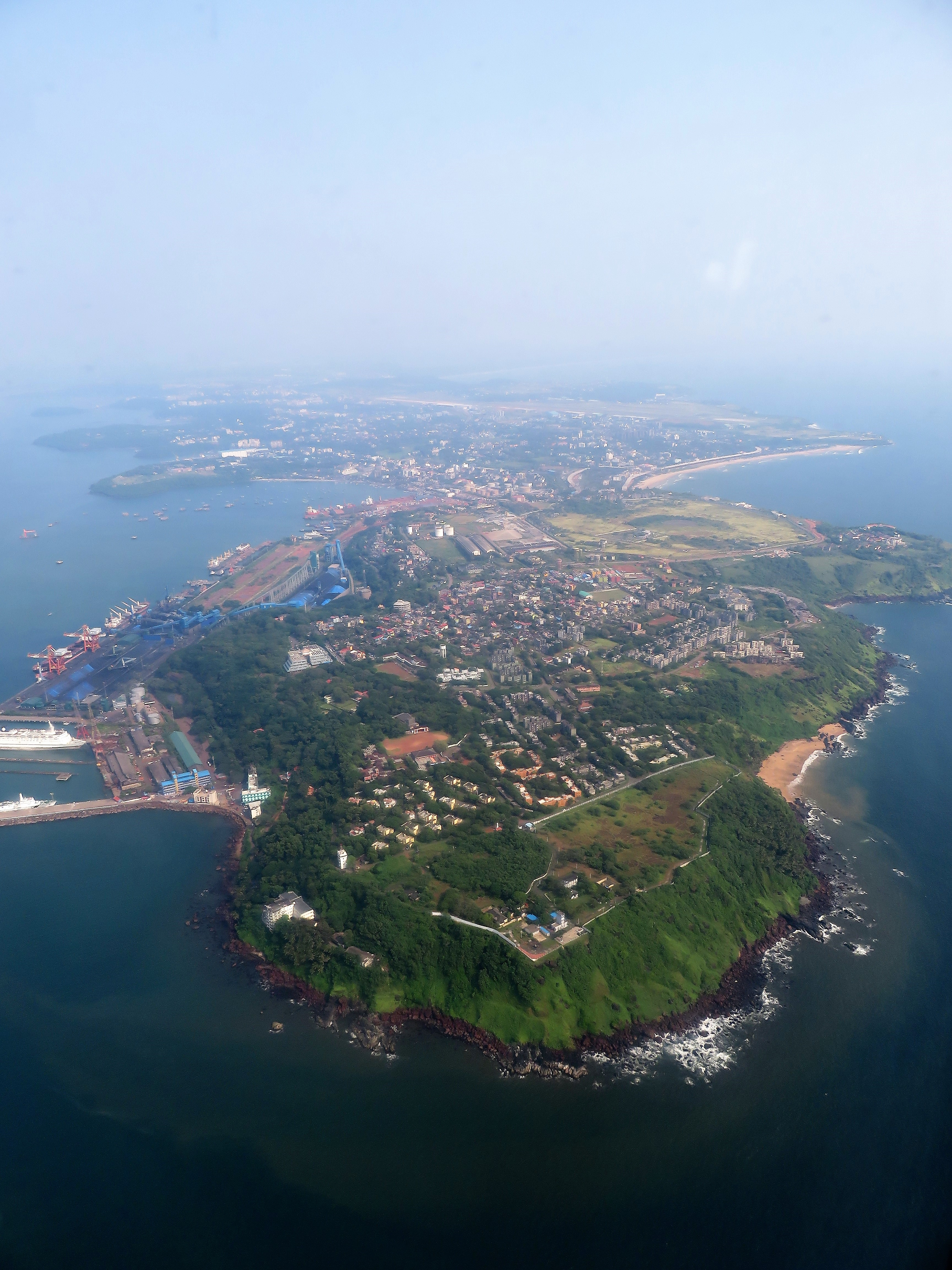 Picture of Vasco de Gama (Goa) taken from an air craft's window